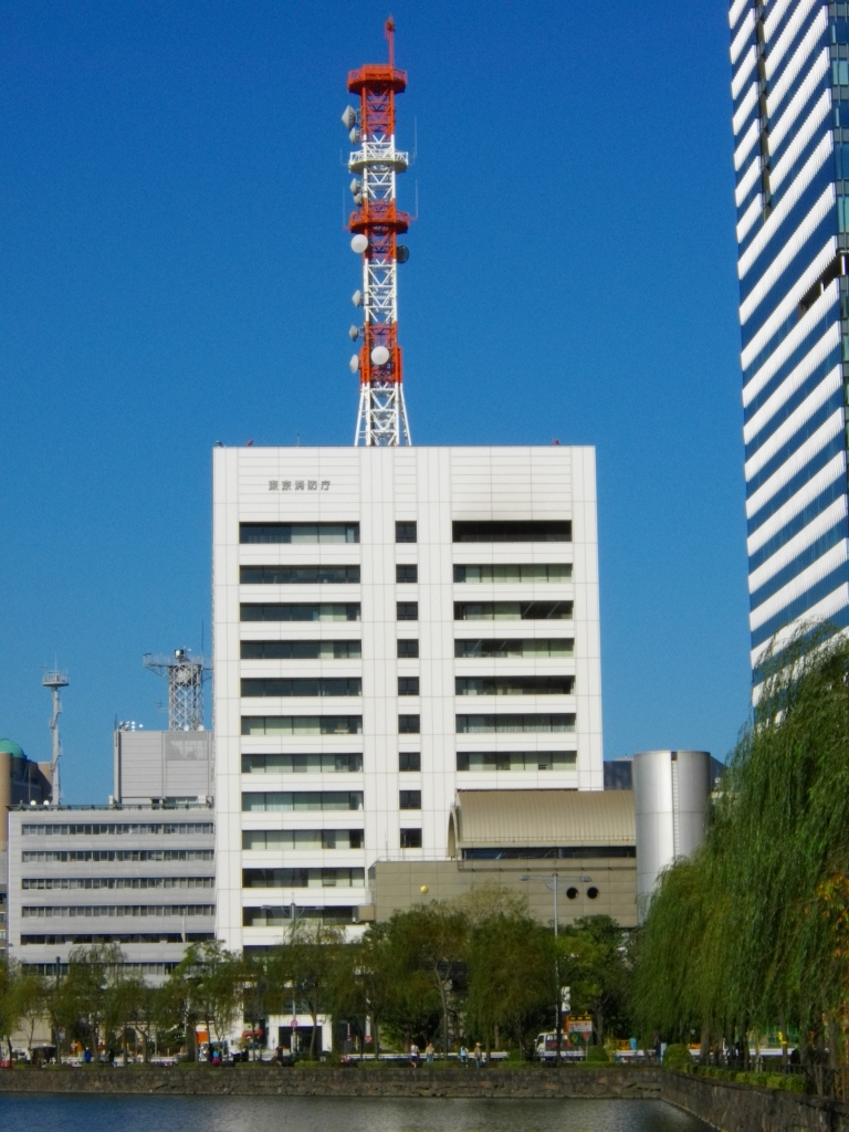 Tokyo Fire Department Building